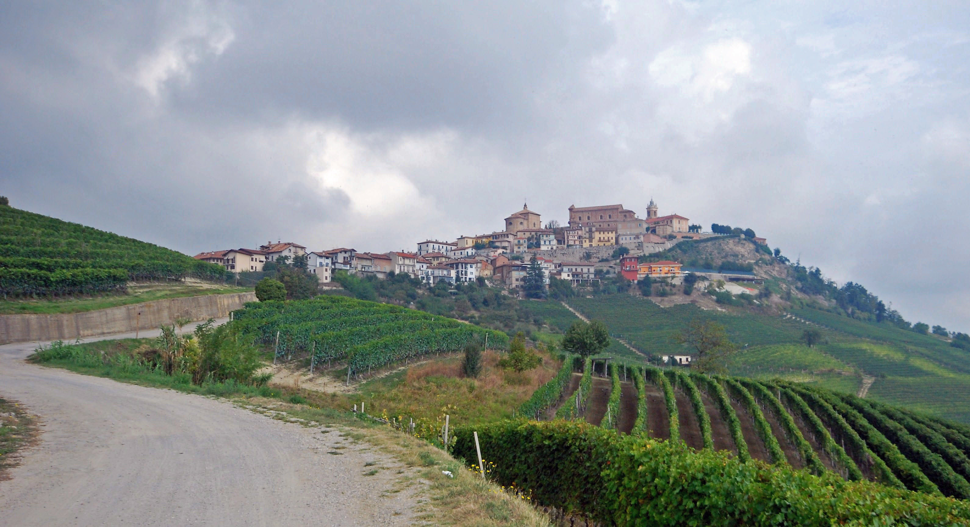 Village of La Morra, Piemonte, seen from south